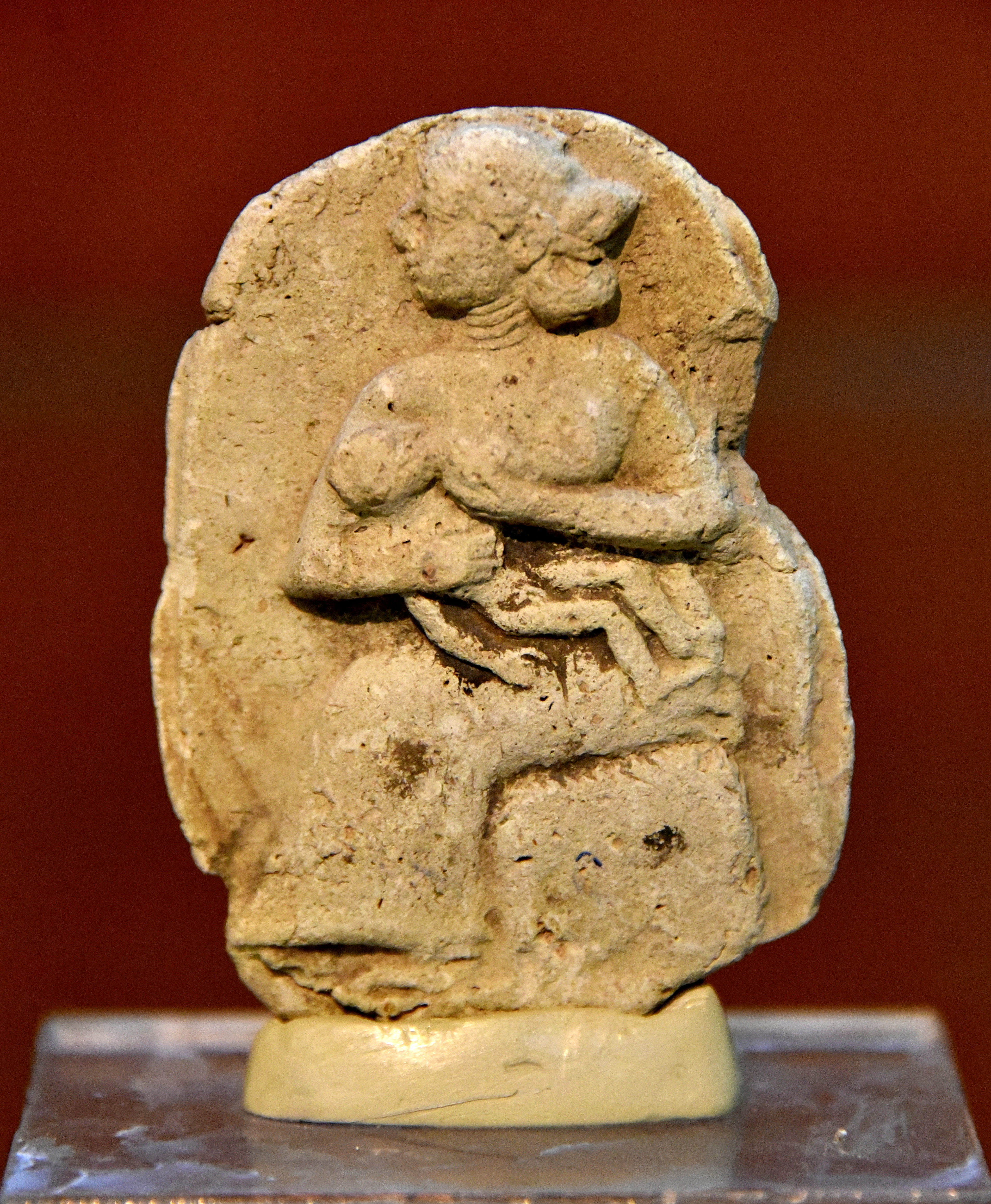 Old-Babylonian fired clay plaque of a woman nursing (breastfeeding) her infant. She has a wonderful hairstyle and wears necklaces and ankle-length dress, and sits on what appears to be a stool. 2003-1595 BCE. From Southern Mesopotamia, Iraq. The Sulaymaniyah Museum, Iraqi Kurdistan.